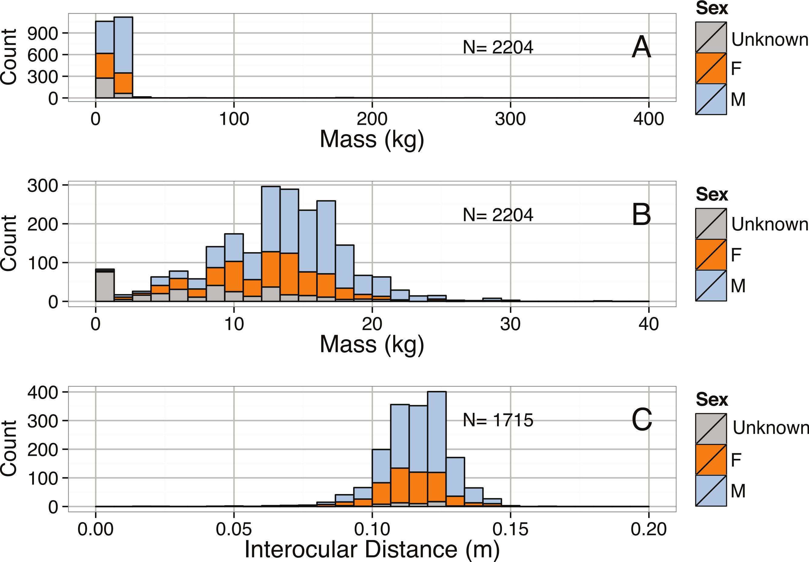 Figure 10: (A) Distribution Mass (kg), (B) distributions of Mass between 0 and 40 kg, and (C) Interocular Distance (m) for male and female Enteroctopus dofleini.